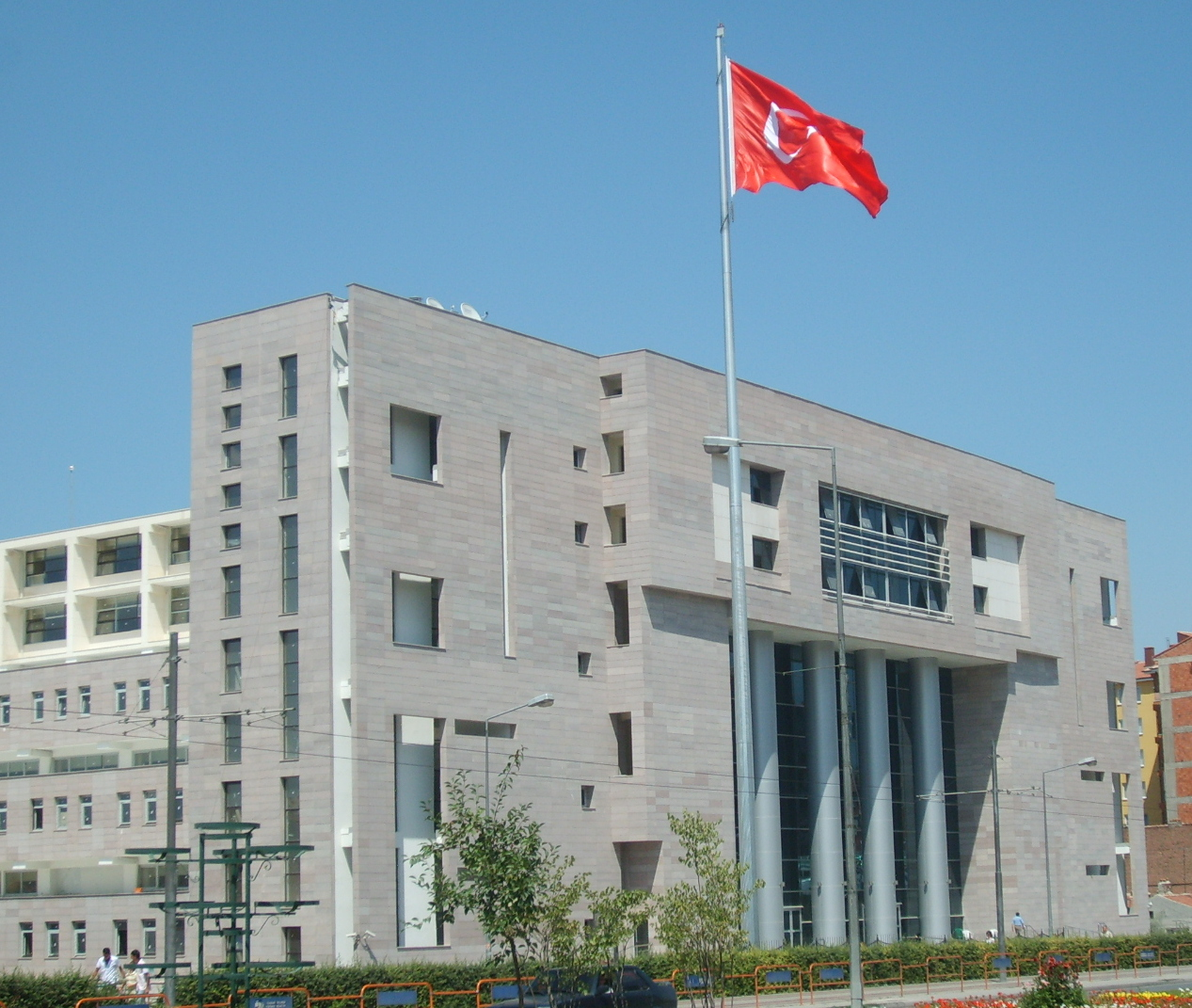 Eskisehir Courthouse